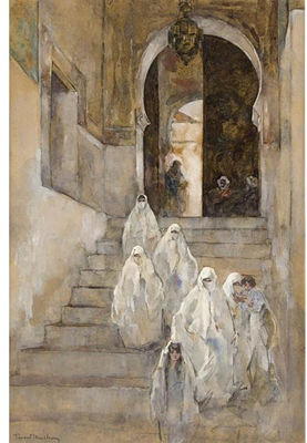 AN ARABIC SCENE WITH FIGURES IN THE MEDINA